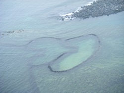 雙心石滬